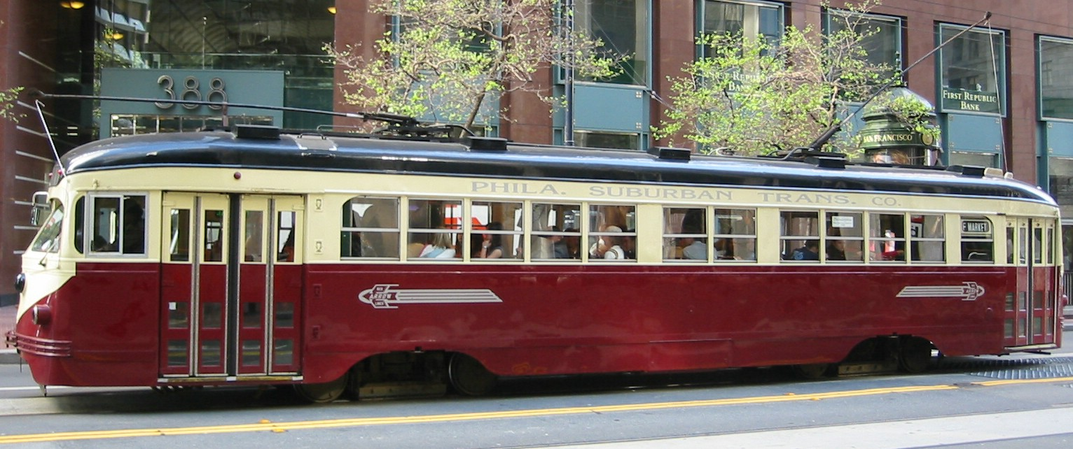 San Francisco car 1007, a double-ended (bi-directional) PCC-type streetcar, now operating in heritage streetcar service and repainted in the colors of the former Philadelphia Suburban Transportation Company, which had a small fleet of similar double-ended PCC cars.